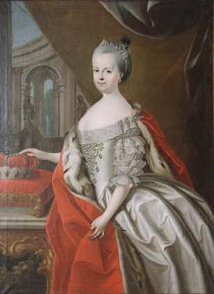 Caroline Louise of Hesse-Darmstadt, margravine of Baden (1723-1783)